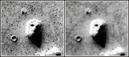 Left picture: original Viking photograph, Viking 1, 1976. Right image: picture after Median filtering. "Face on Mars" in Cydonia-Region, processed by a Median Filter.